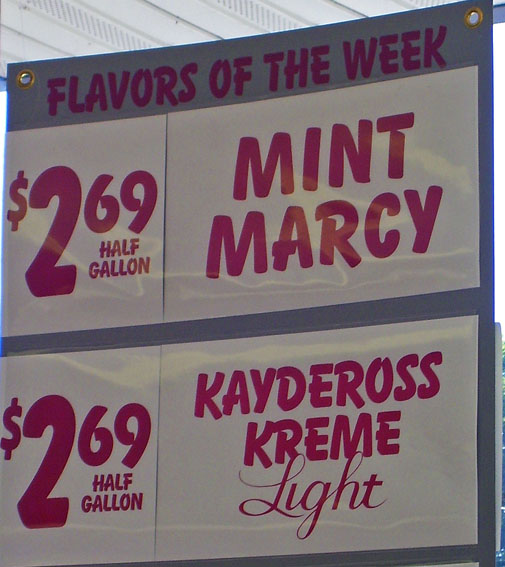 Photographed by Daniel Case 2007-05-30 at the Walden, New York Stewart's